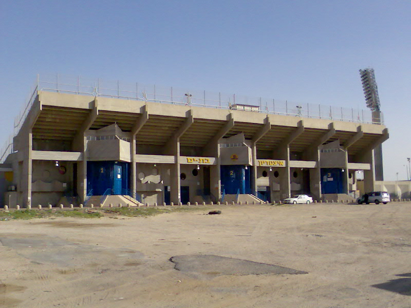 Bat Yam Municipal Stadium